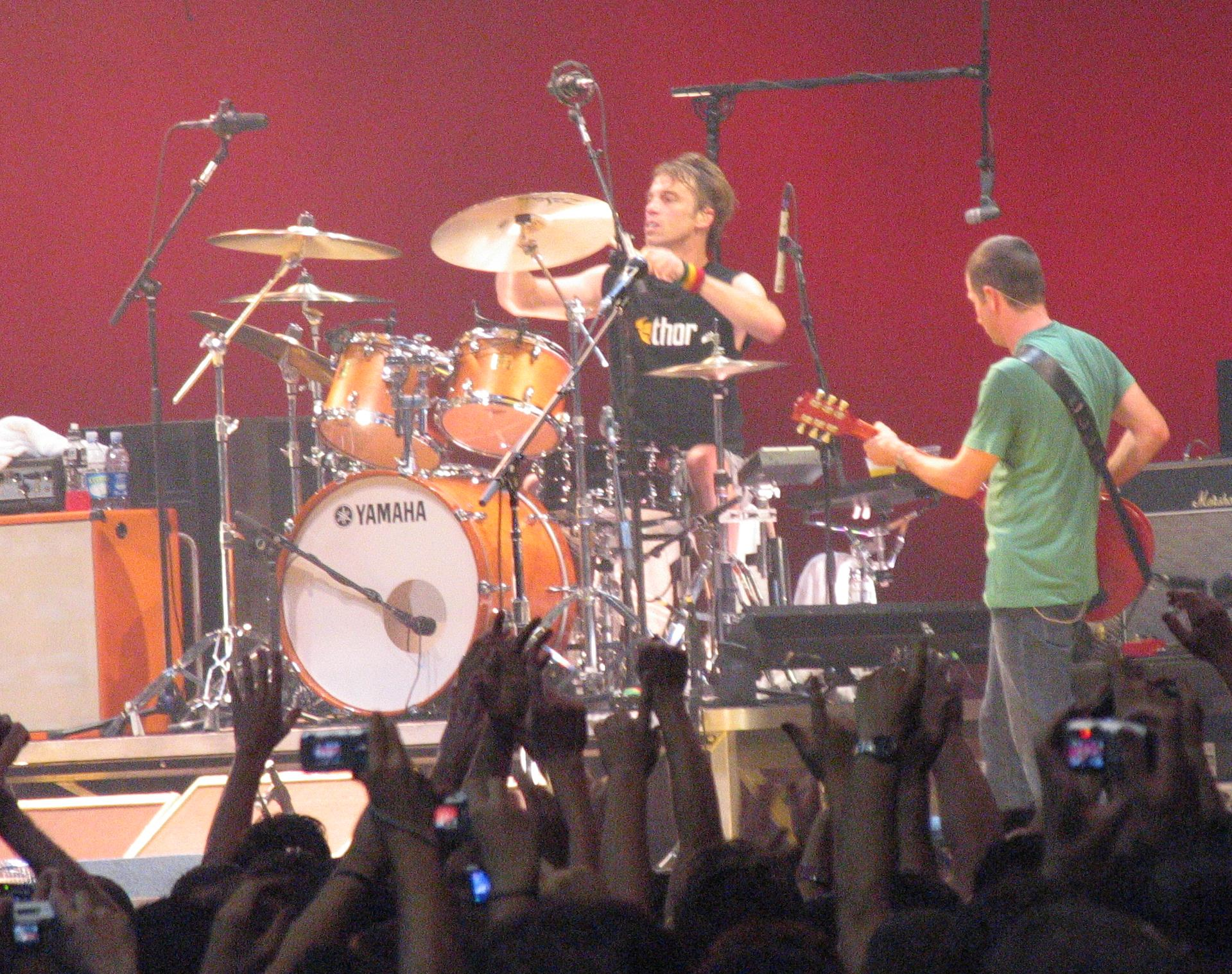 Picture of Matt Cameron of Pearl Jam in concert, taken on September 14, 2006.